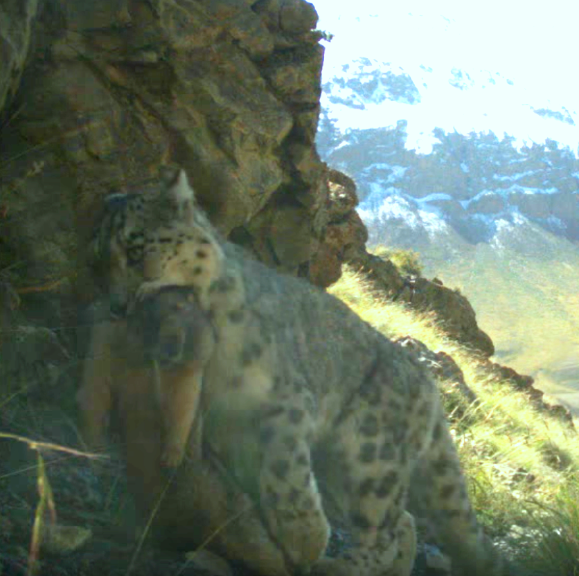 Rare snow leopard (Panthera uncia) footage from the wild. A research camera in Kyrgyzstan captures a wild snow leopard going on the hunt... and coming back a few minutes later with its prey – a big, tasty marmot (Marmota caudata). Footage courtesy of Snow Leopard Trust, Snow Leopard Foundation Kyrgyzstan, Sarychat Ertash Nature Reserve, Woodland Park Zoo. Video by Koustubh Sharma.